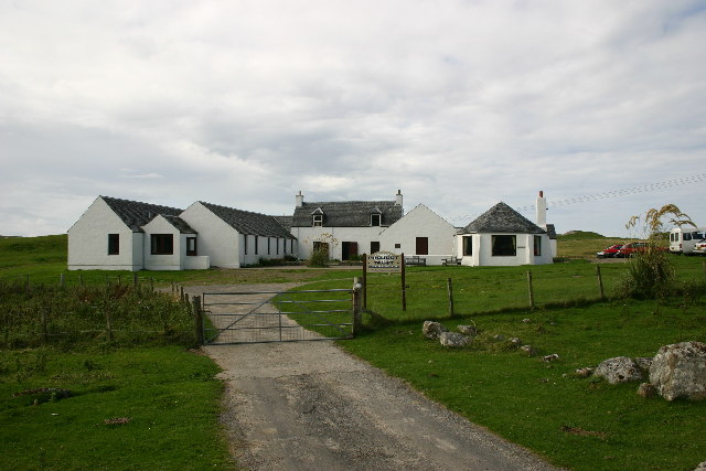 Project Trust, The Hebridean Centre. This is located in a scenic and remote area.